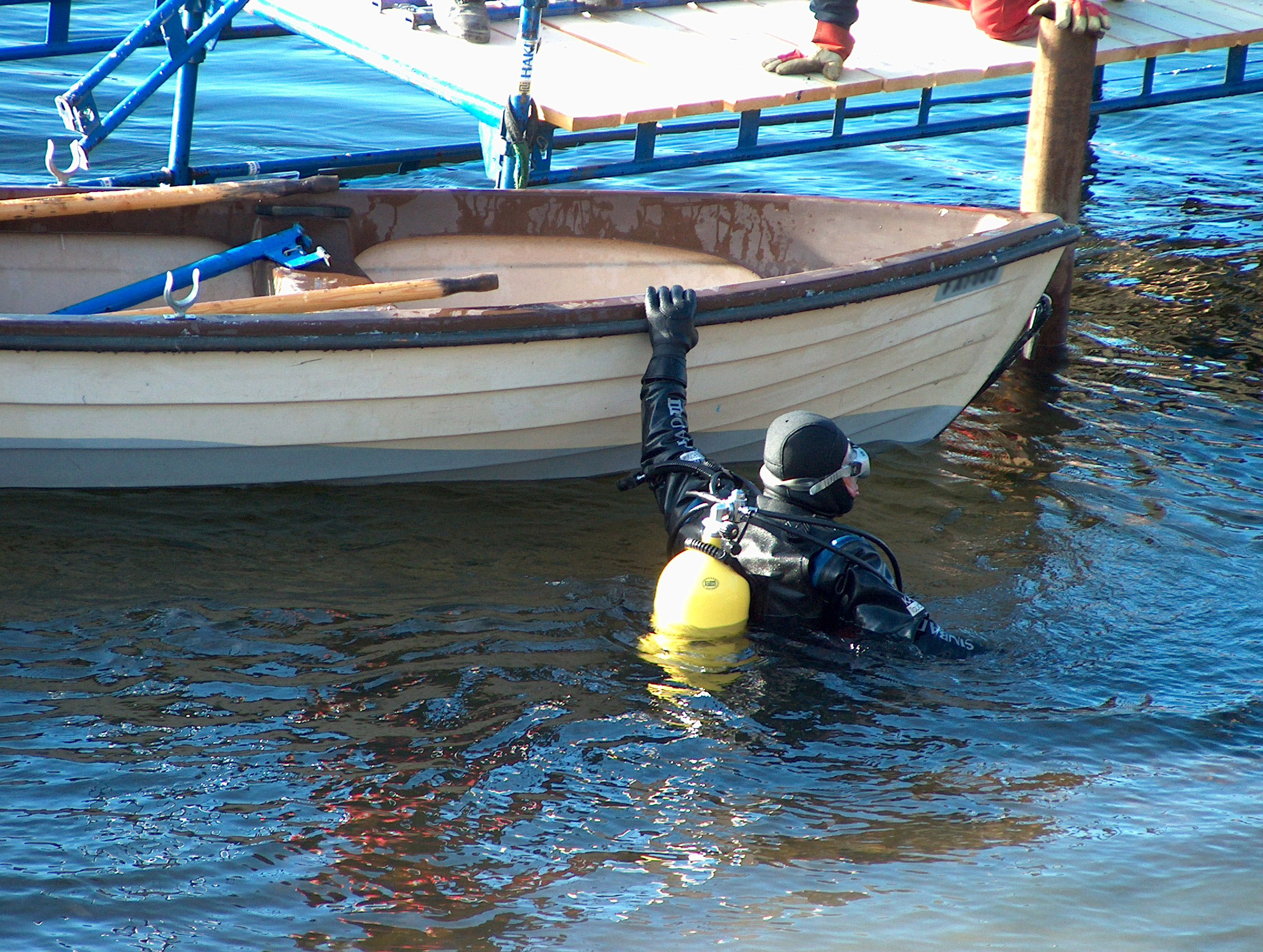 Yrkesdykker i Storelva under byggingen av Glatved Brygge i Hønefoss (Professional diver working in the river during the construction of Glatved Landing Stage in Hønefoss, Norway)